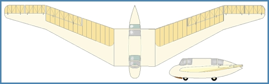 Kayaba Ku 3